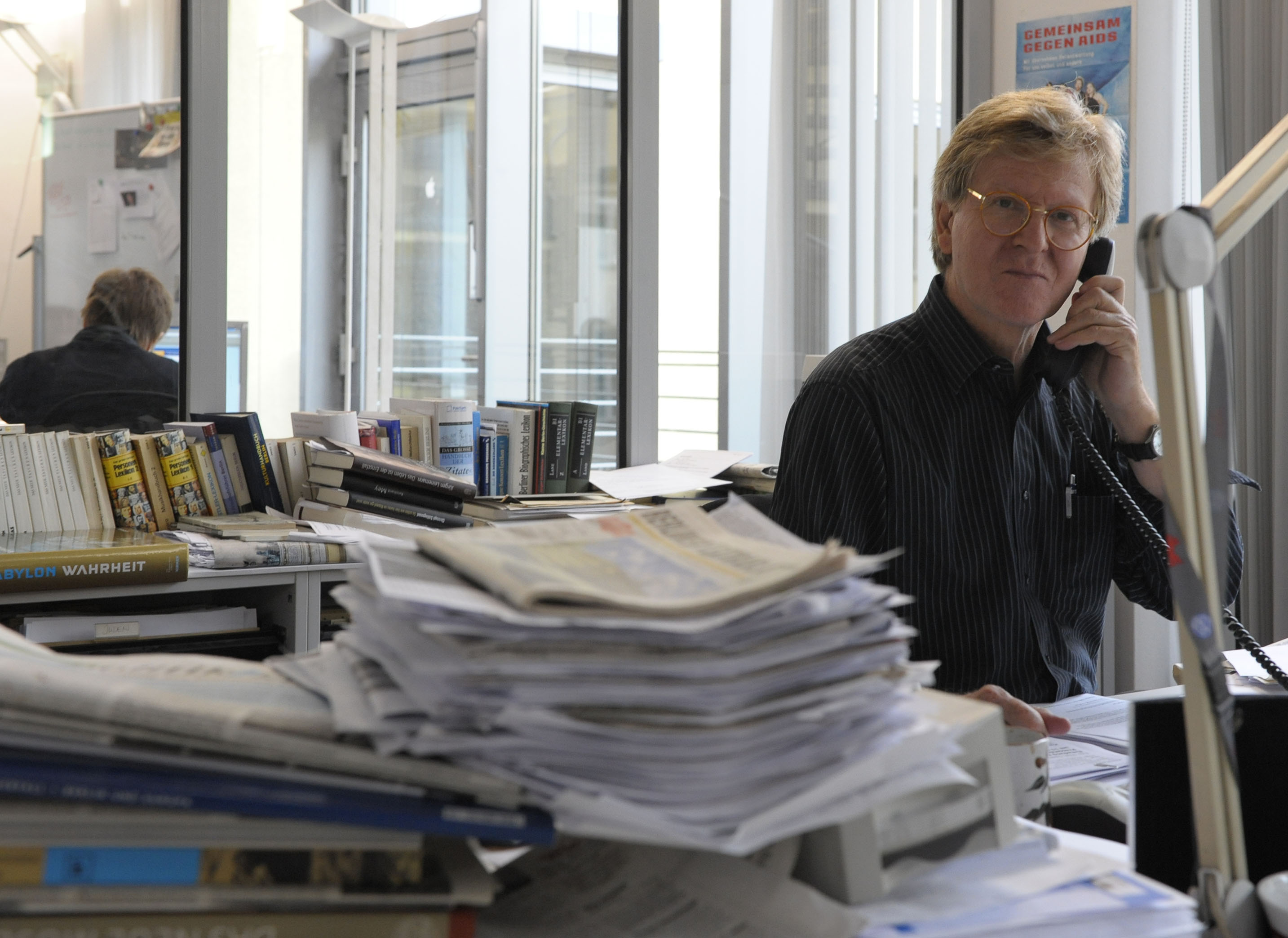 German journalist Wilfried Mommert in his office at dpa Berlin.